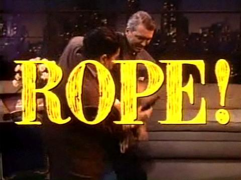 Cropped screenshot of James Stewart from the trailer for the film Rope